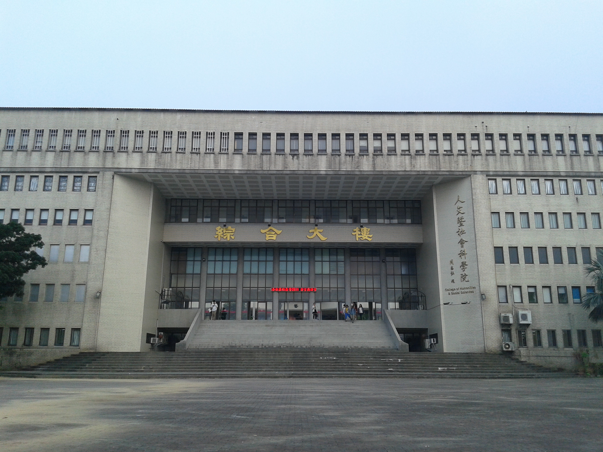 General Education Building in NPUST.